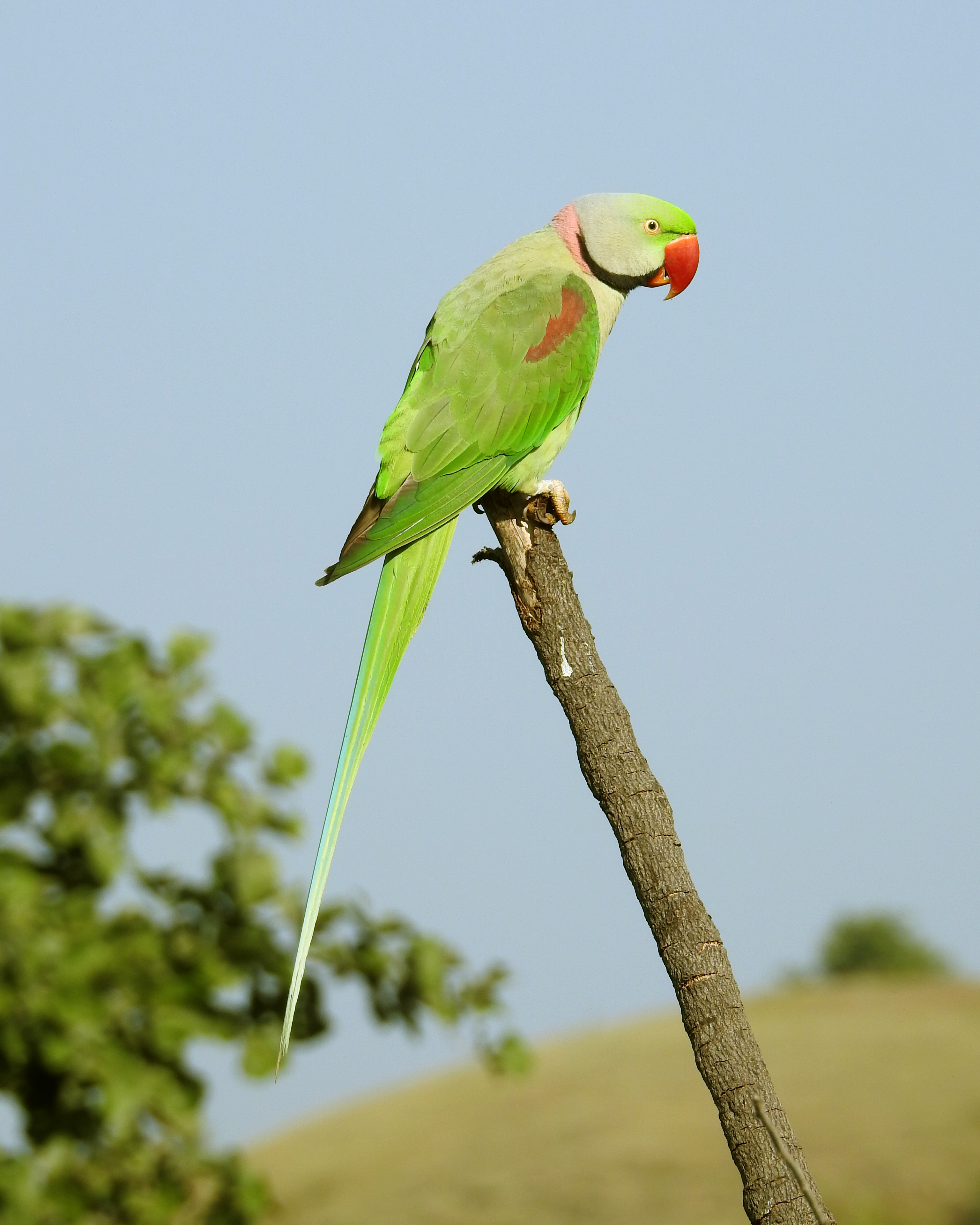 Alexandrine Parakeet Psittacula eupatria. Photographed in Yavatmal district, Maharashtra, India.